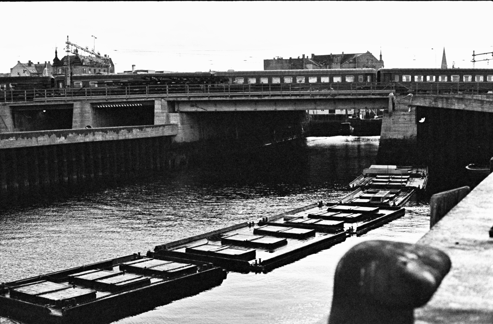 Ravnklo bru as seen from St. Olavs pir 1974